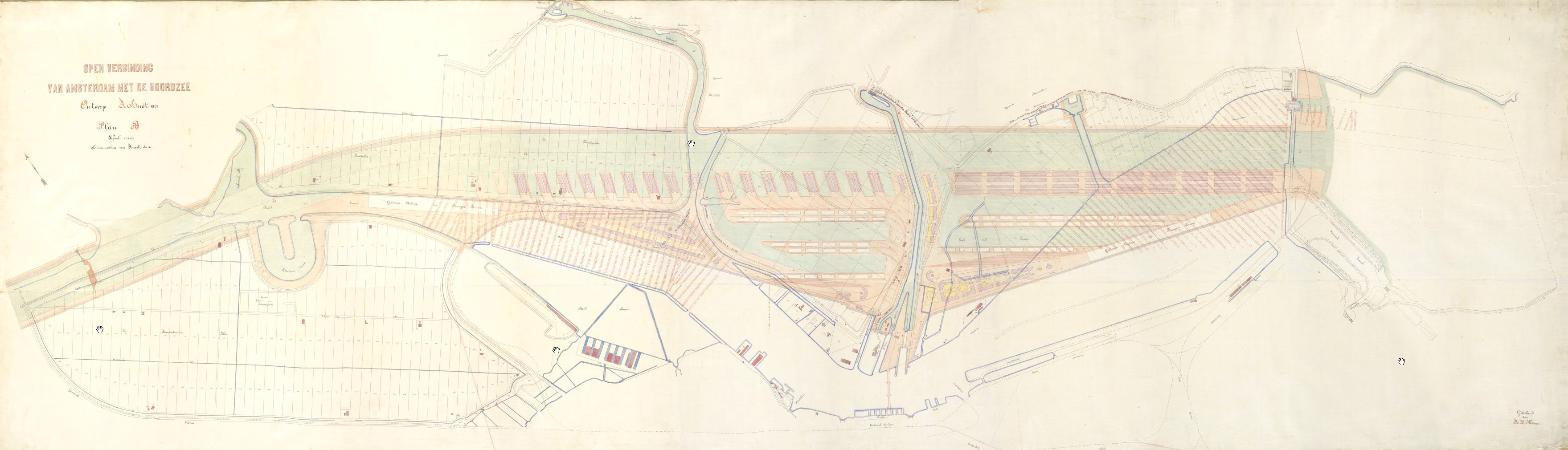 Ontwerp open verbinding van Amsterdam met de Noordzee door Adrien Huet, 1891